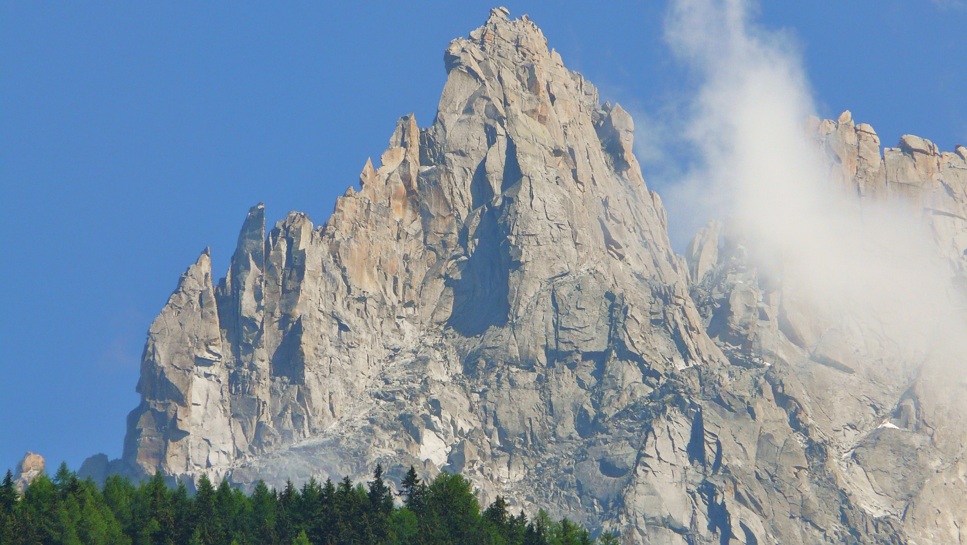 Aiguille des Grands Charmoz (3,445 m) as seen from Chamonix in 2009 July.